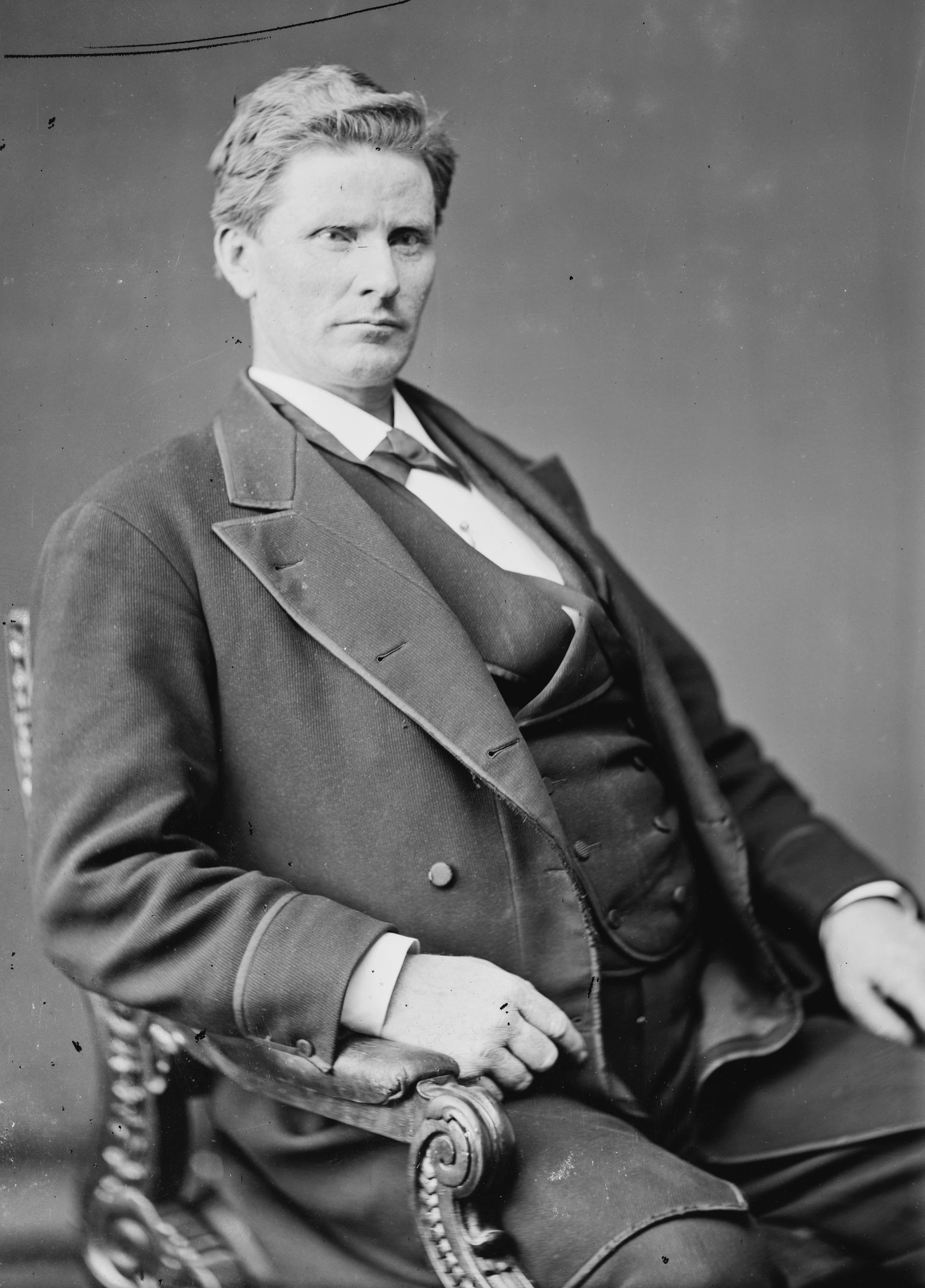 Charles W. Jones. Library of Congress description: "Jones, Senator Hon. Charles Wm of Florida".